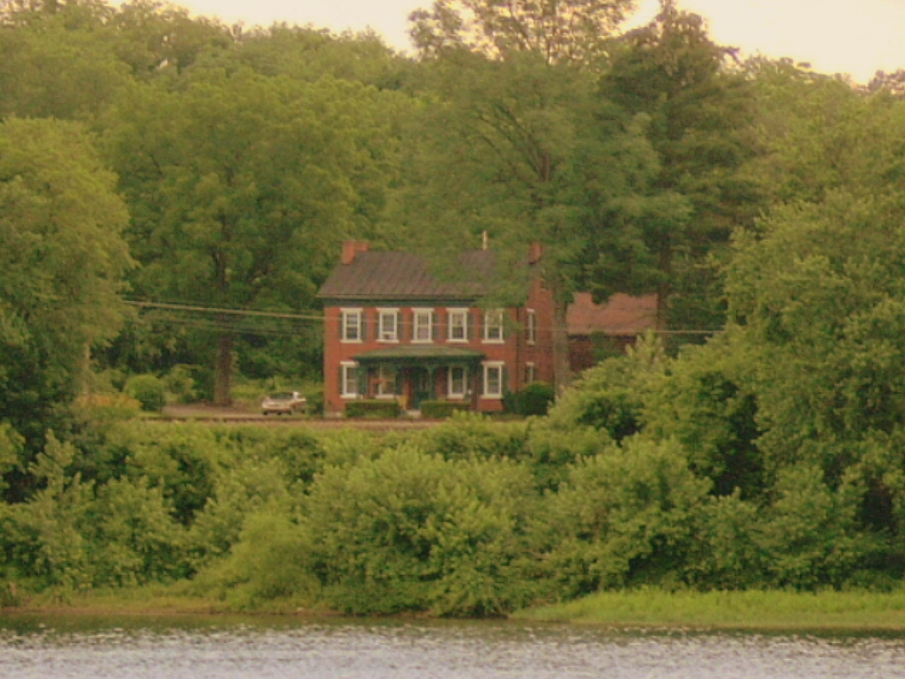 A view of East Buffalo Township from across the West Branch Susquehanna River at the Fence Drive-In